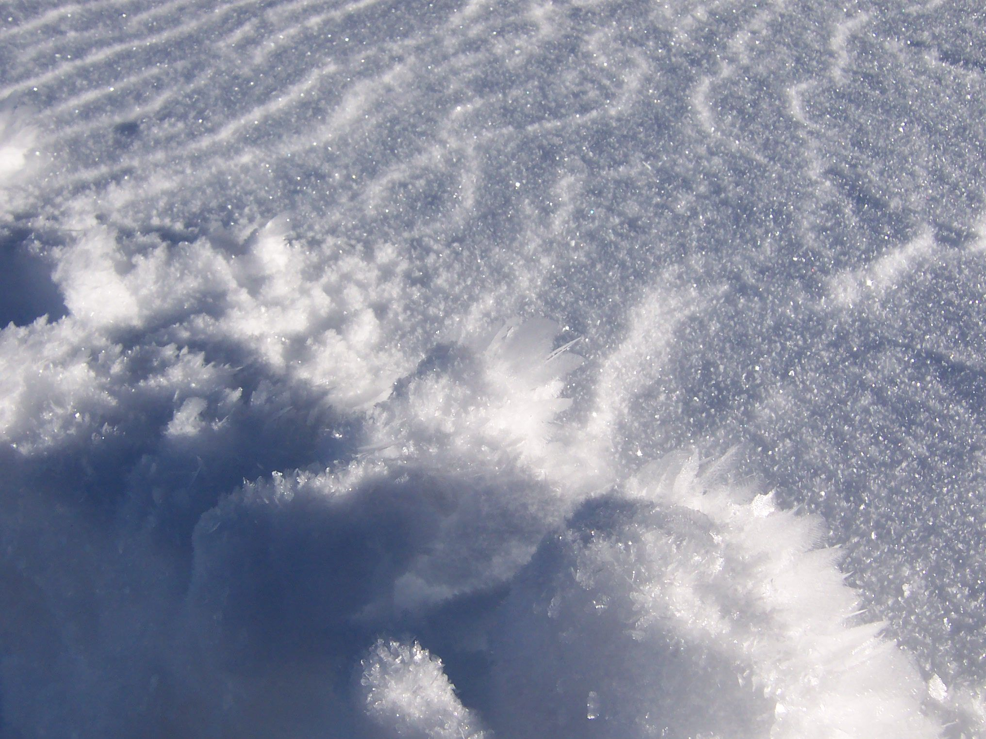 Fresh powder snow, snow crystals.